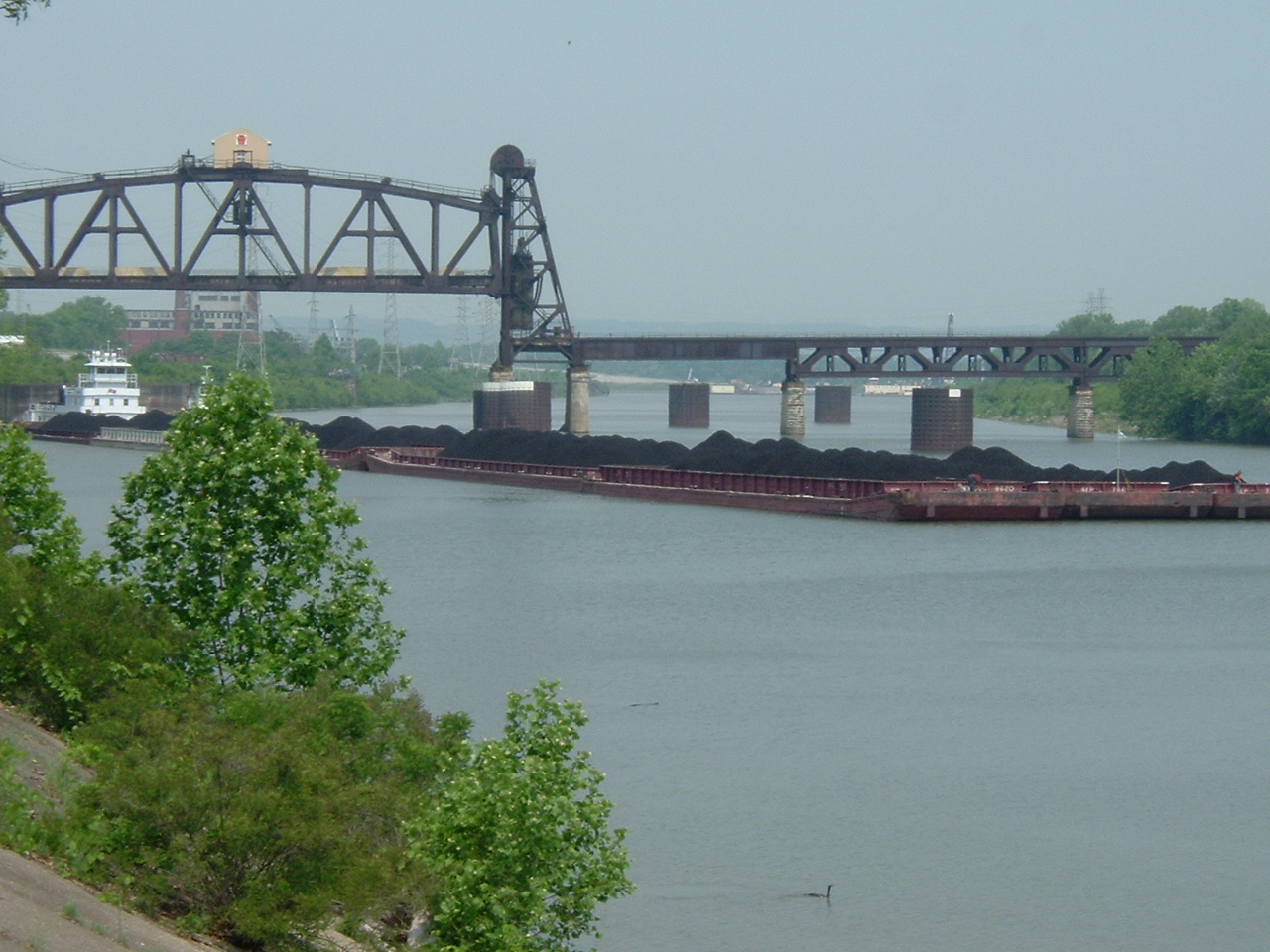 A barge hauling coal in the Louisville and Portland Canal, the only manmade section of the Ohio River. This canal was completed in 1830 and widened in 1872, 1928, 1962, and 2008. Taken by the uploader, Censusdata; all rights released.